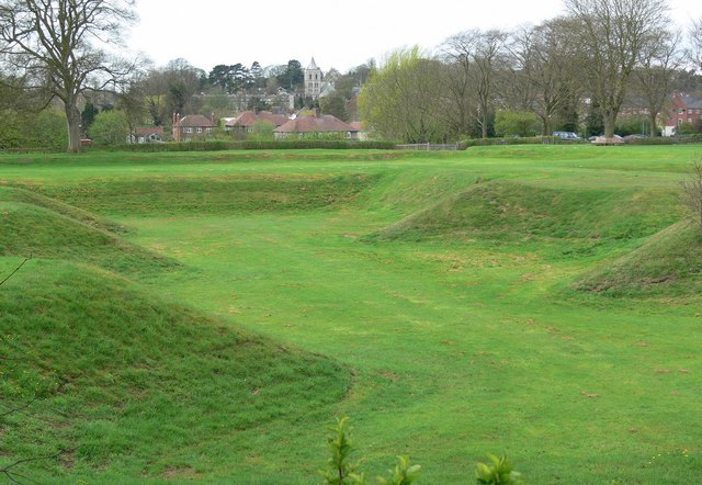 Earthworks at Ashby de la Zouch Castle